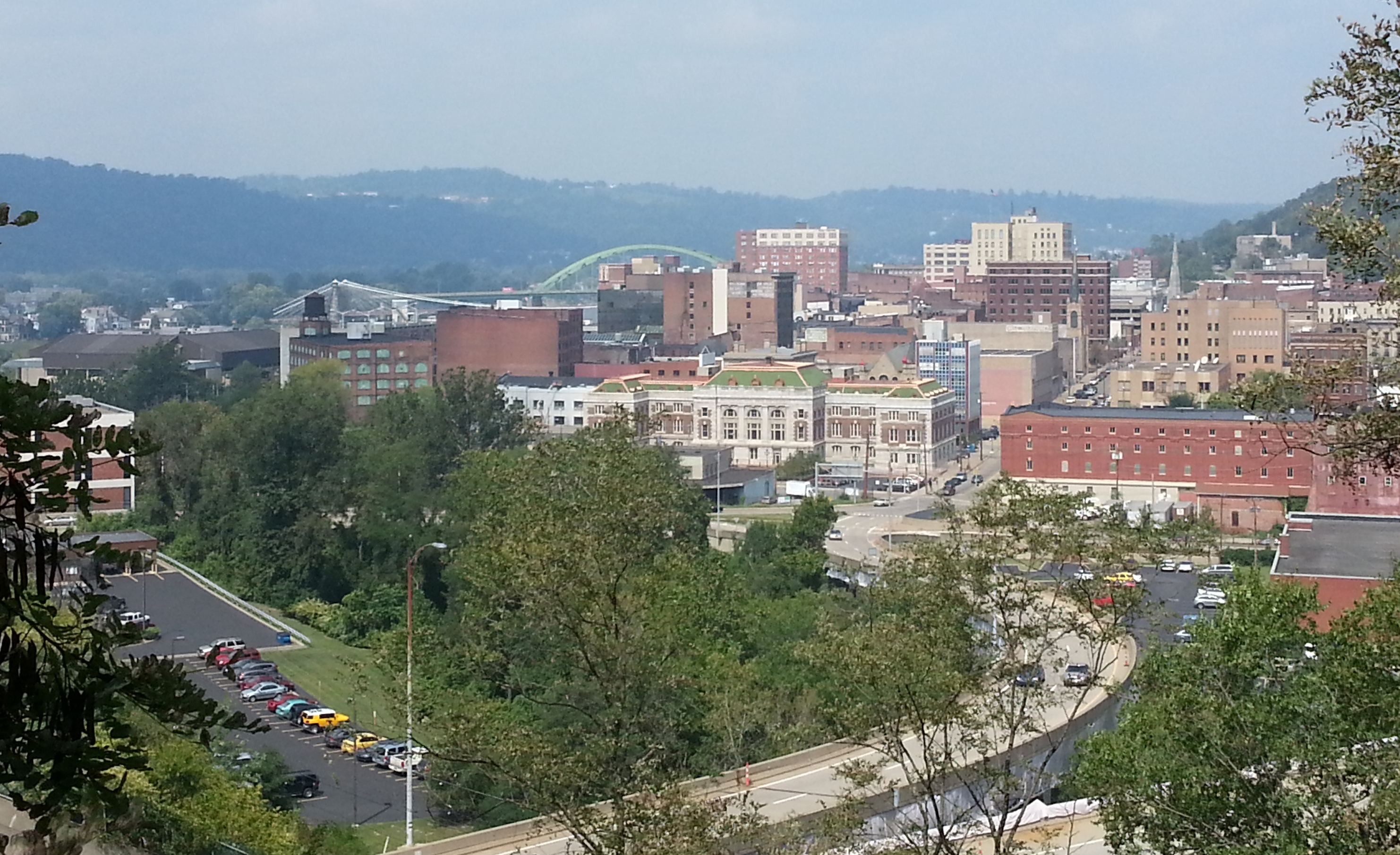 Downtown Wheeling, WV as seen from the 22nd Street/Chapel Hill Bridge